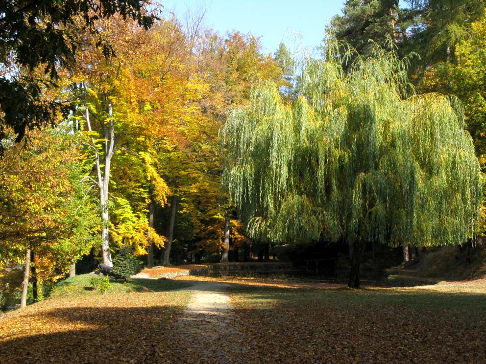 Svaty_anton_park3.JPG